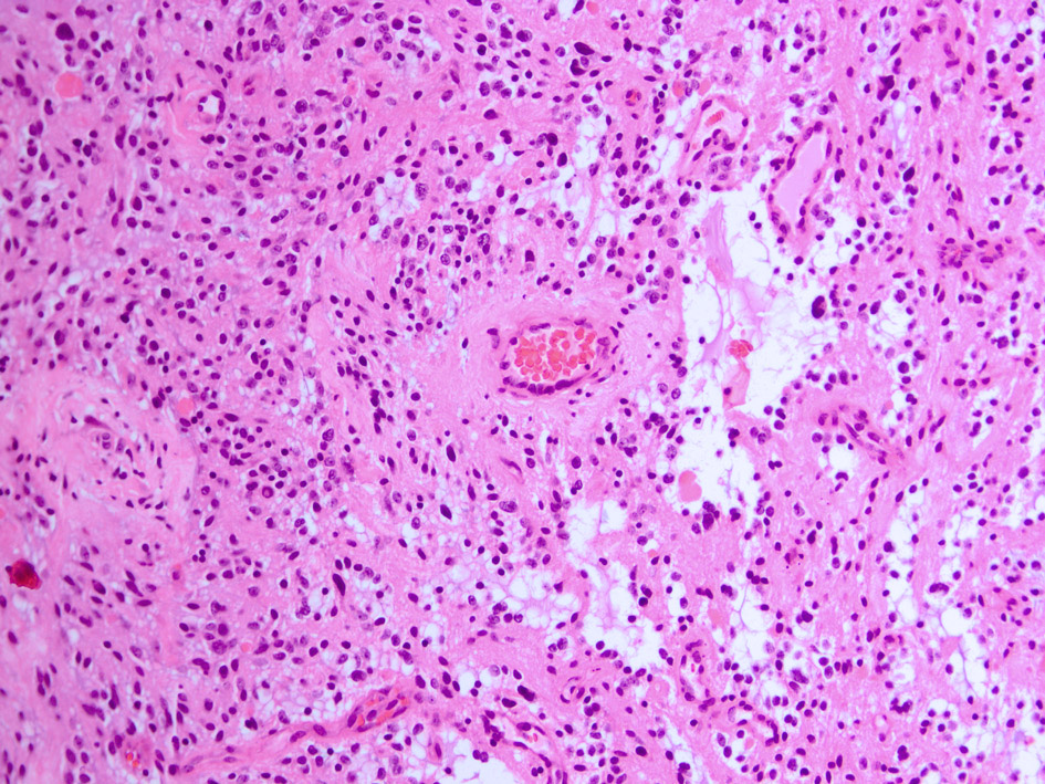 Histopathology of pilomyxoid astrocytoma showing astrocytic tumor cells and a myxoid background. Also note angiocentric growthpattern.